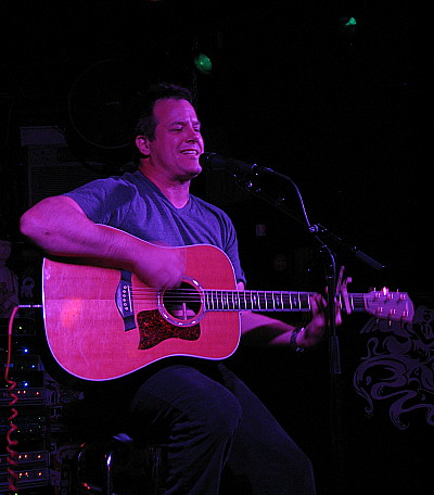 Peter Searcy on stage at The Saint in Asbury Park, NJ, April 27, 2012